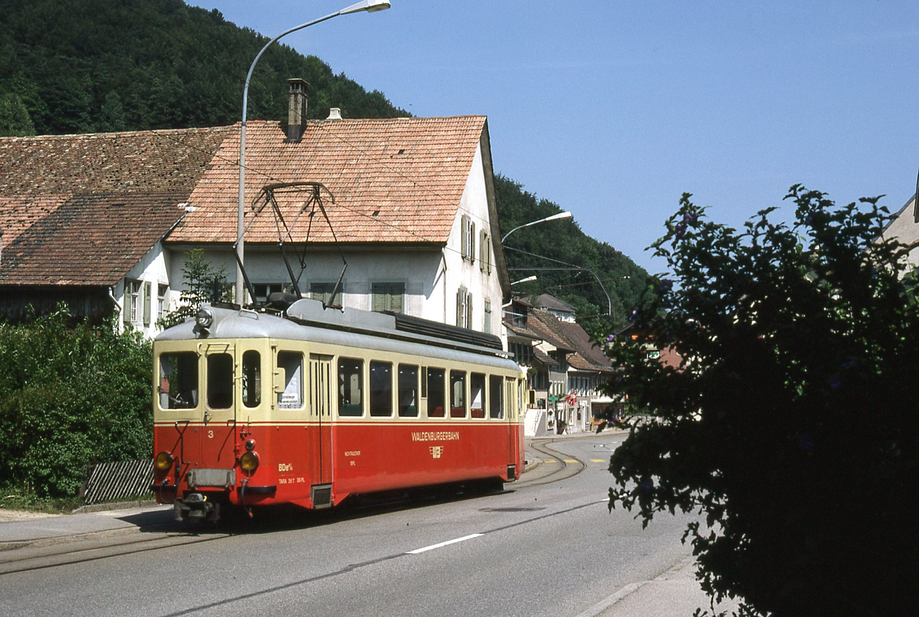 Car 3 of Waldenburgerbahn, BL, Switzerland, a 750mm-gauge line, seen on a single-track section of the route.